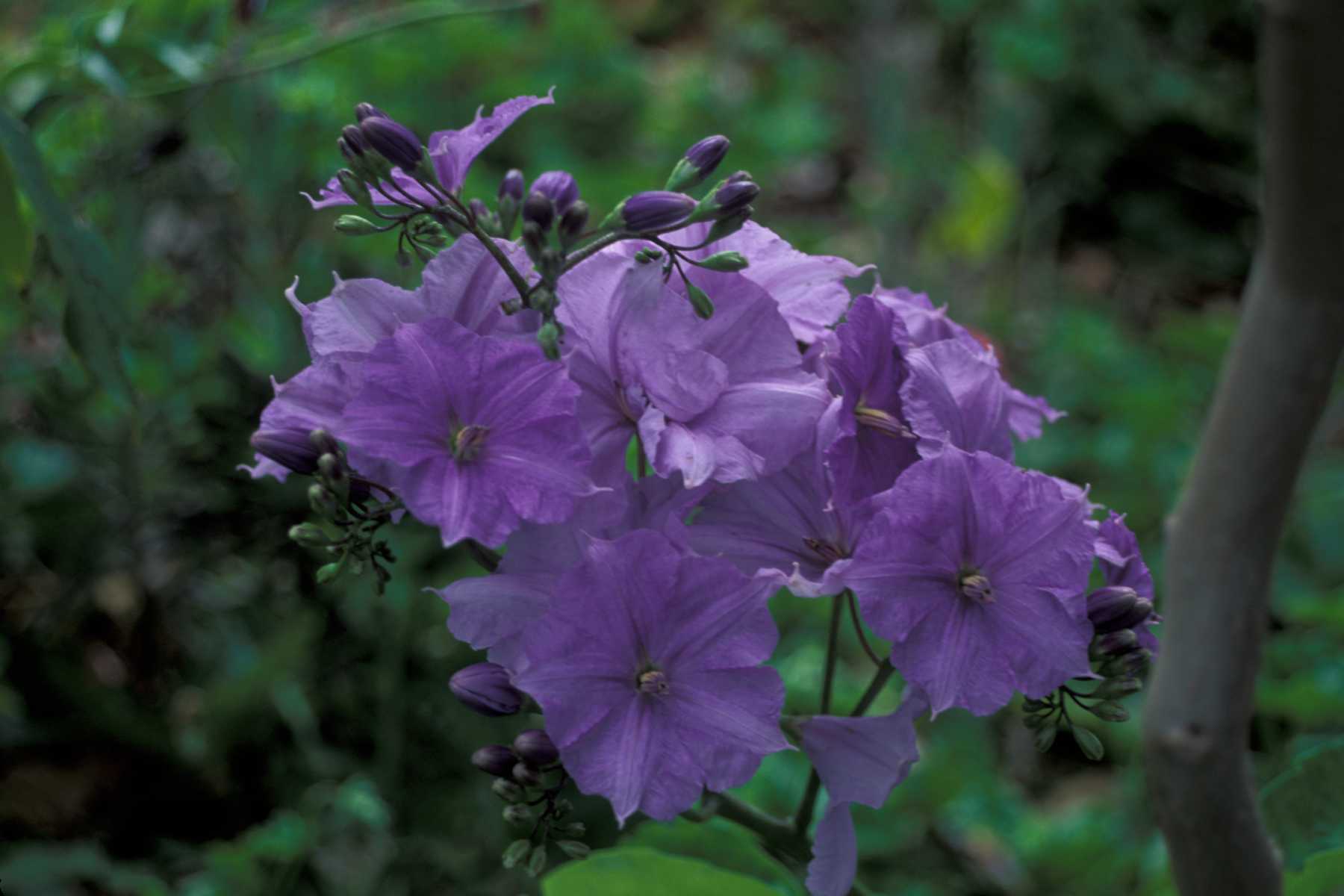 Solanum wendlandii (flowers). Location: Maui, Enchanting Floral Gardens of Kula